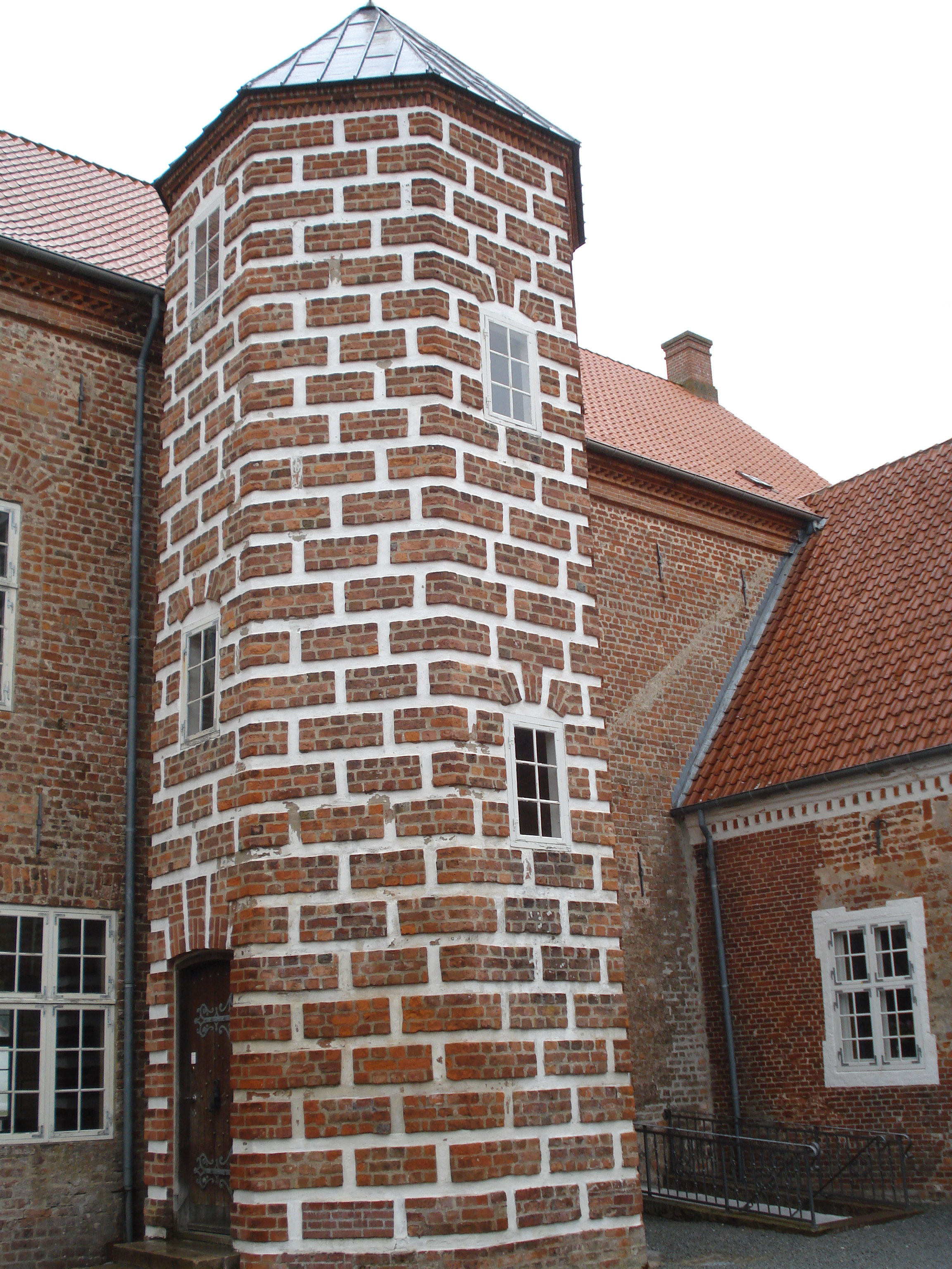 Tower at Sæbygaard Manorhouse, Jutland, Denmark